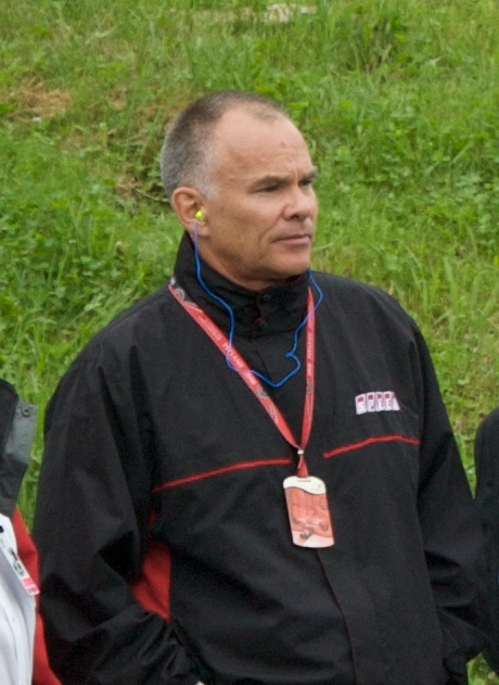 Peter Windsor at the Canadian GP in 2008